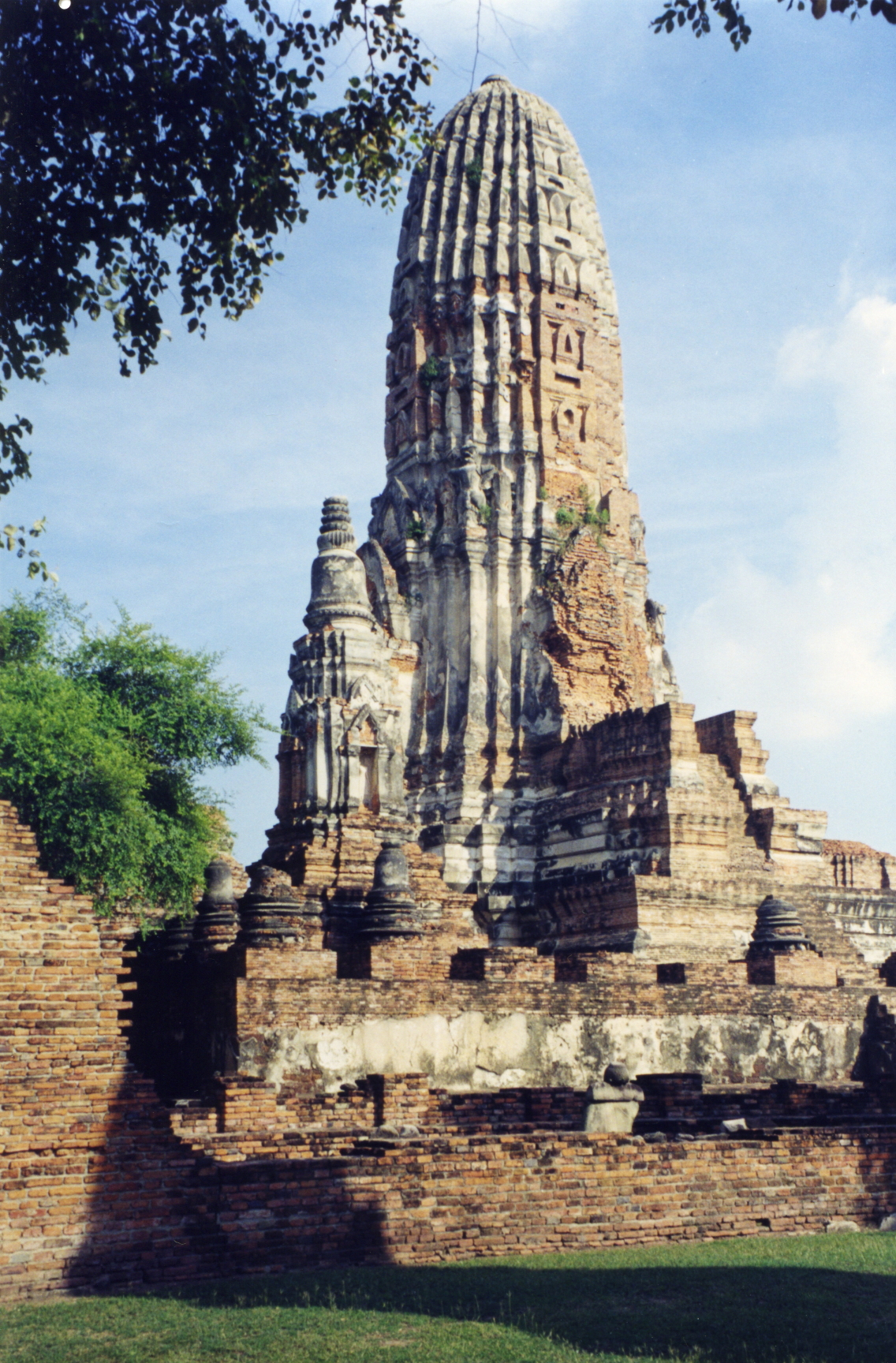 Wat Phra Ram is a restored ruin located in the Historical Park of Ayutthaya in Pratu situated close to the Grand Palace and Wat Sri Sanphet in a swampy area. The exact time of its construction is not known as the various Chronicles of Ayutthaya give different timings of its construction. The oldest version, the Luang Prasoet, written during the Late Ayutthayan era, states its establishment in 1369. Later versions written in the post-Ayutthayan era put its construction in the year 1434. Wat Phra Ram follows the Khmer concept of temple construction. We find nearly identical, but earlier built structures at Angkor. Phnom Bakheng, Preah Rup, East Mebon, Baphuon and Ta Keo were all Temple Mountains, consisting of a central tower surrounded by four corner towers, forming a quincunx, the latter also often was surrounded by a courtyard and a gallery. (From History of Ayutthaya